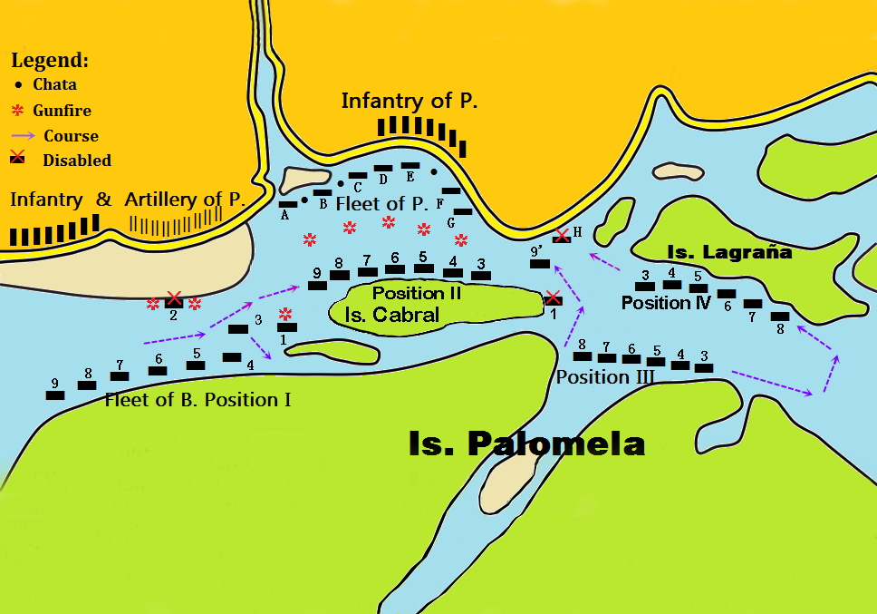 Battle of Riachuelo during the War of Triple Alliance